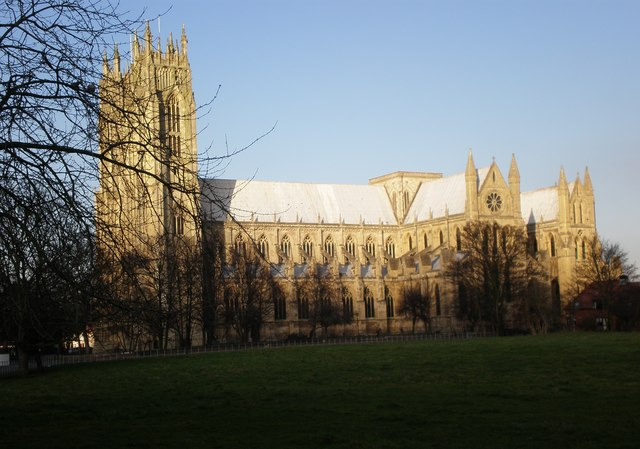 Beverley Minster, Beverley, East Riding of Yorkshire, England.Majestic Beverley Minster.